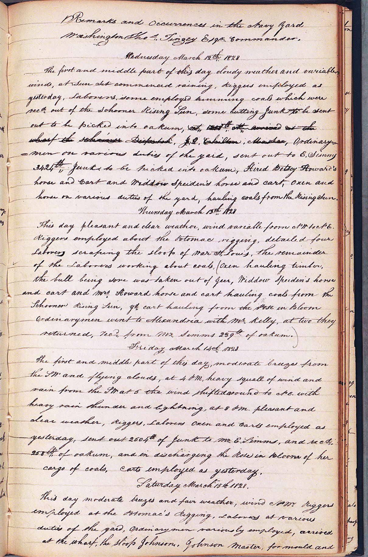 Washington navy yard station log, March 12, 1828. Entry lists Betsey Howard and Widow Speiden as cart drivers.